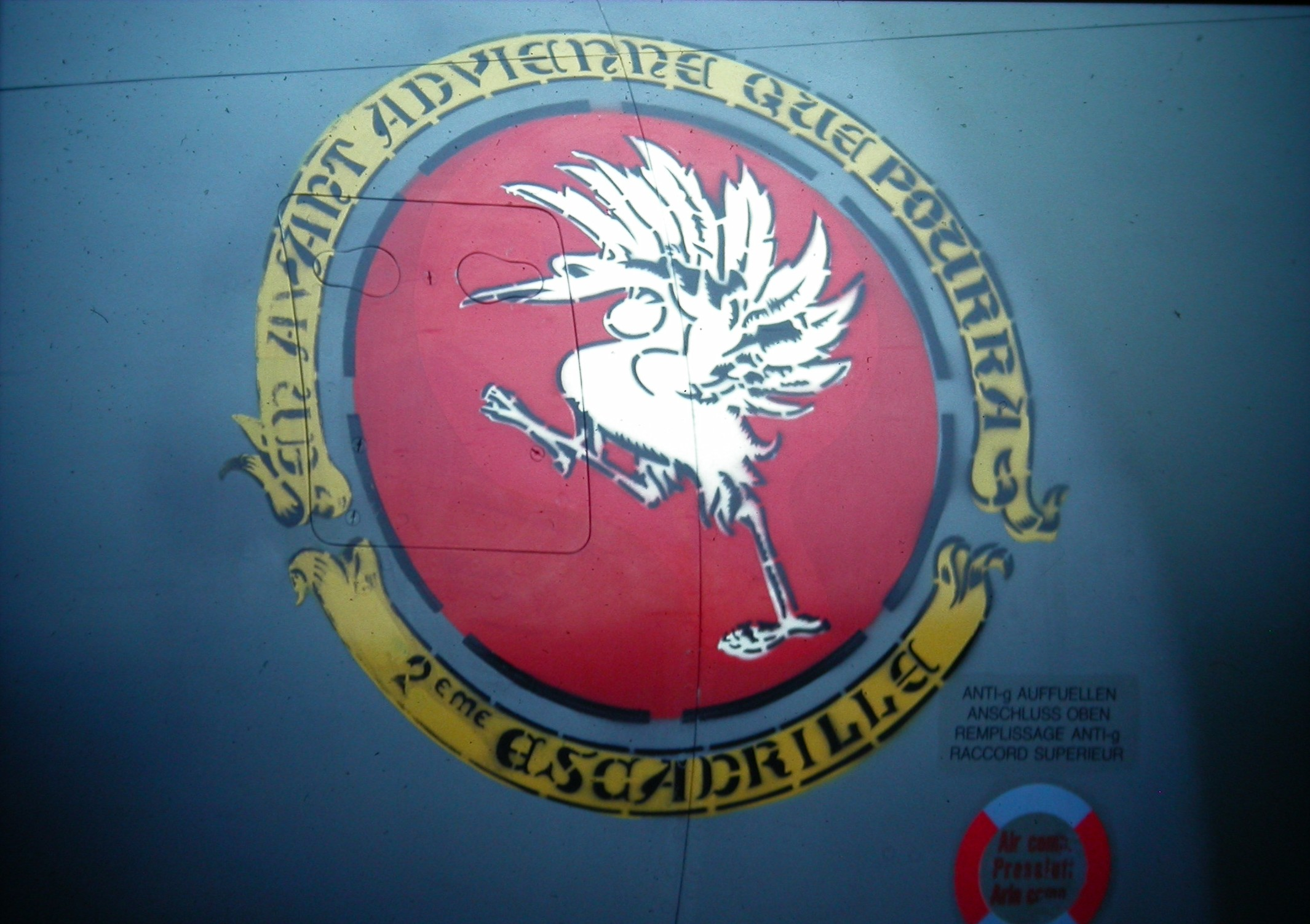 Swiss Air Force 2 Squadron Emblem